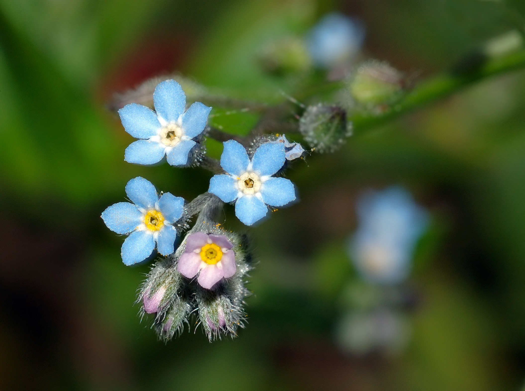 This image shows a wood forget-me-not flower (Myosotis sylvatica).